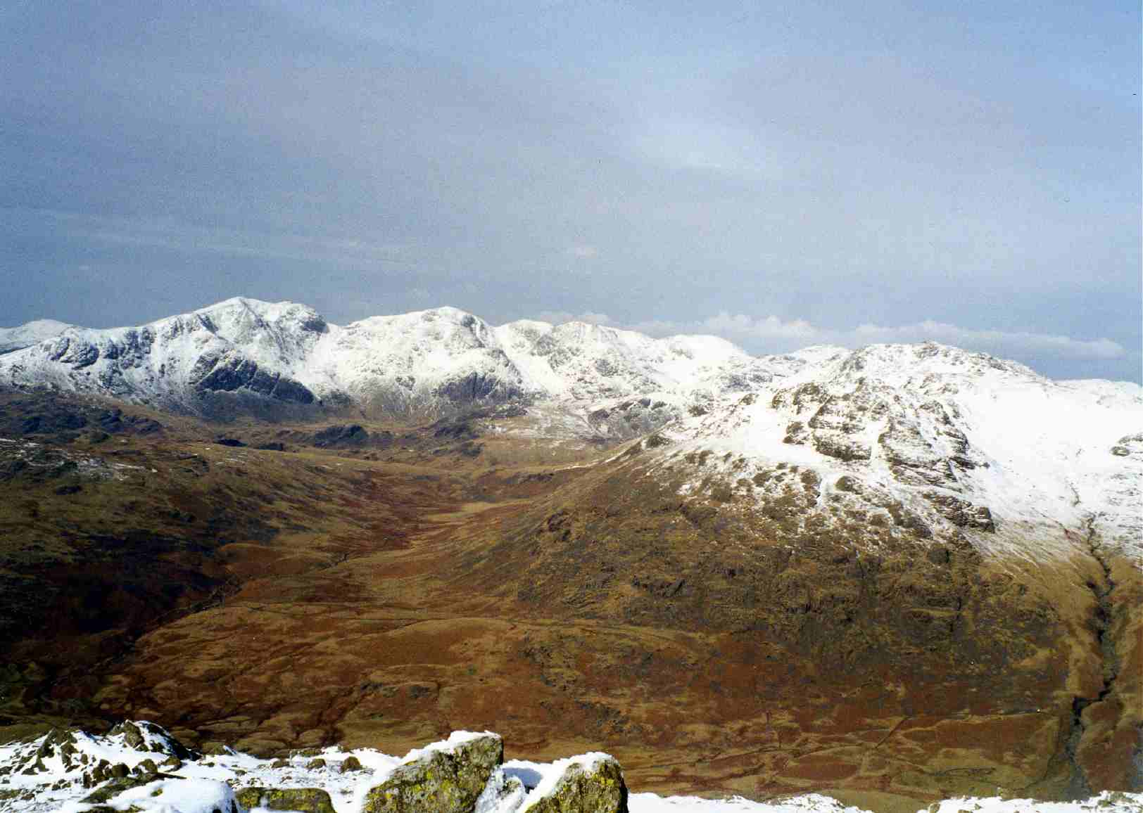 The Scafells seen from Grey Friar Summit. Personal photograph taken by Mick Knapton